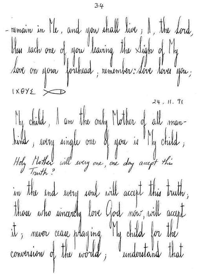 A copy of Vassula Ryden's handwritten notes transcribing what she says are messages from Jesus and angels. End of the message of 22th November 1991 and beginning of the message of 24th November 1991. It is page 34 in Vassula Rydén´s 56th note book.